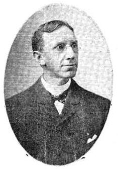 George William Veditz (August 13, 1861 – March 12, 1937)